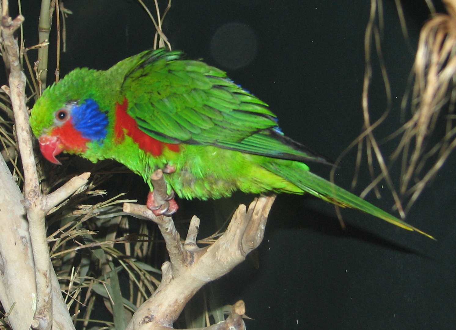 A male Red-flanked Lorikeet at Cincinnati Zoo, USA.